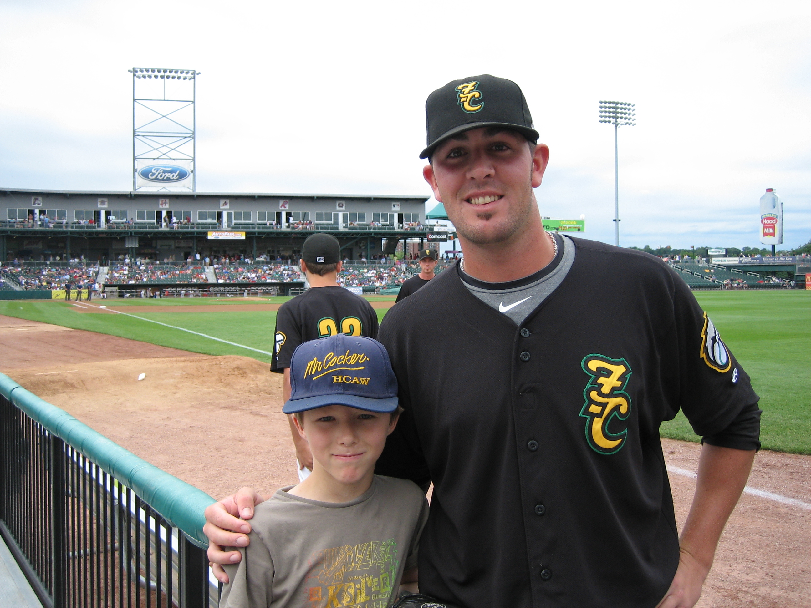 Fishercats-Altoona, closing pitcher and Dutch national team pitcher Leon Boyd